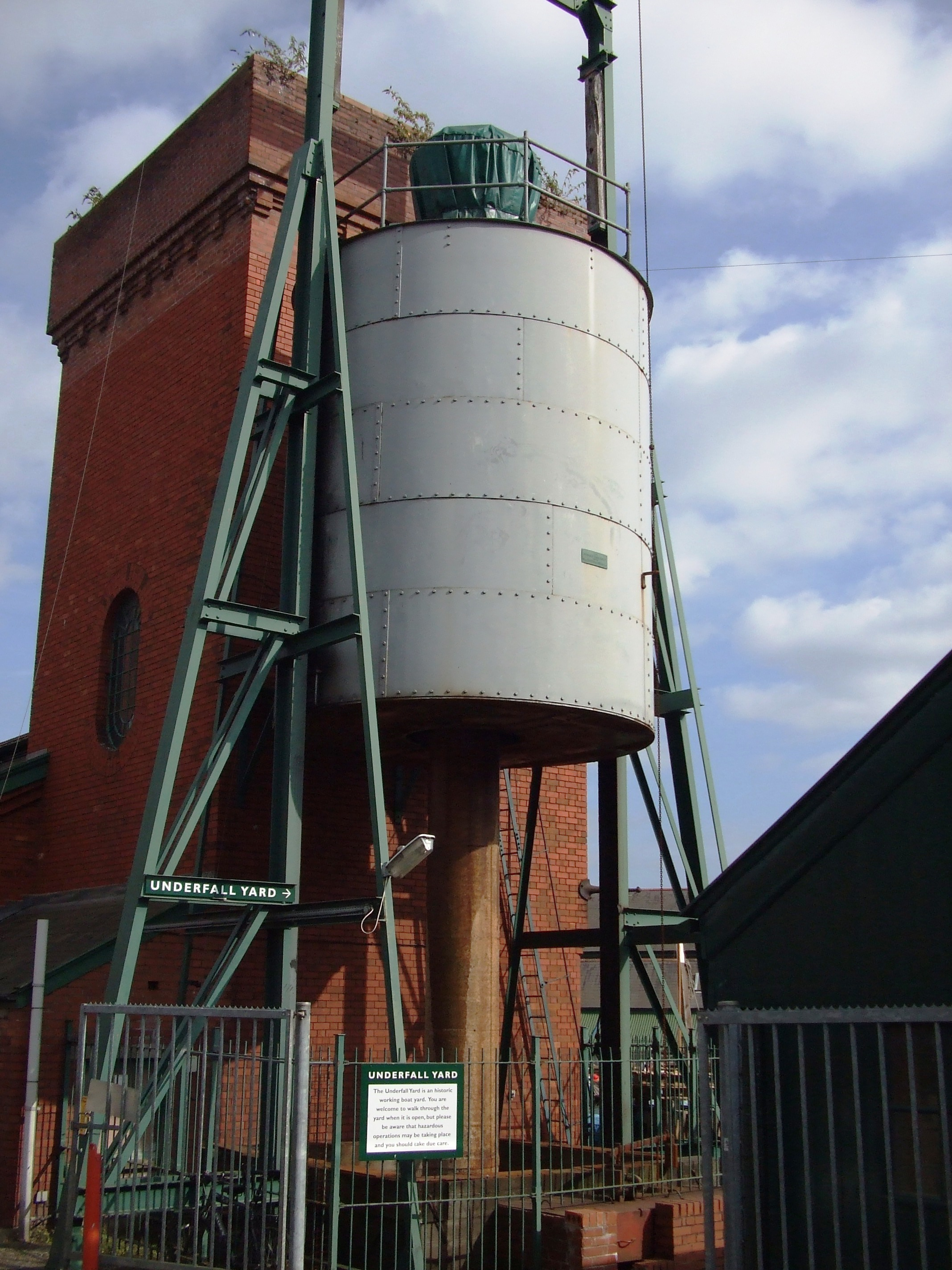 External accumulator, Hydrauling power house, Underfall yard